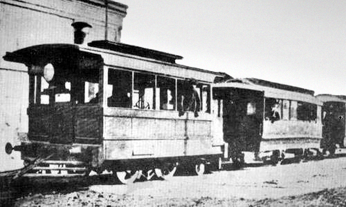 Tram used by the "Federico Lacroze Rural Tramway", owned by railroad entrepreneur Federico Lacroze.